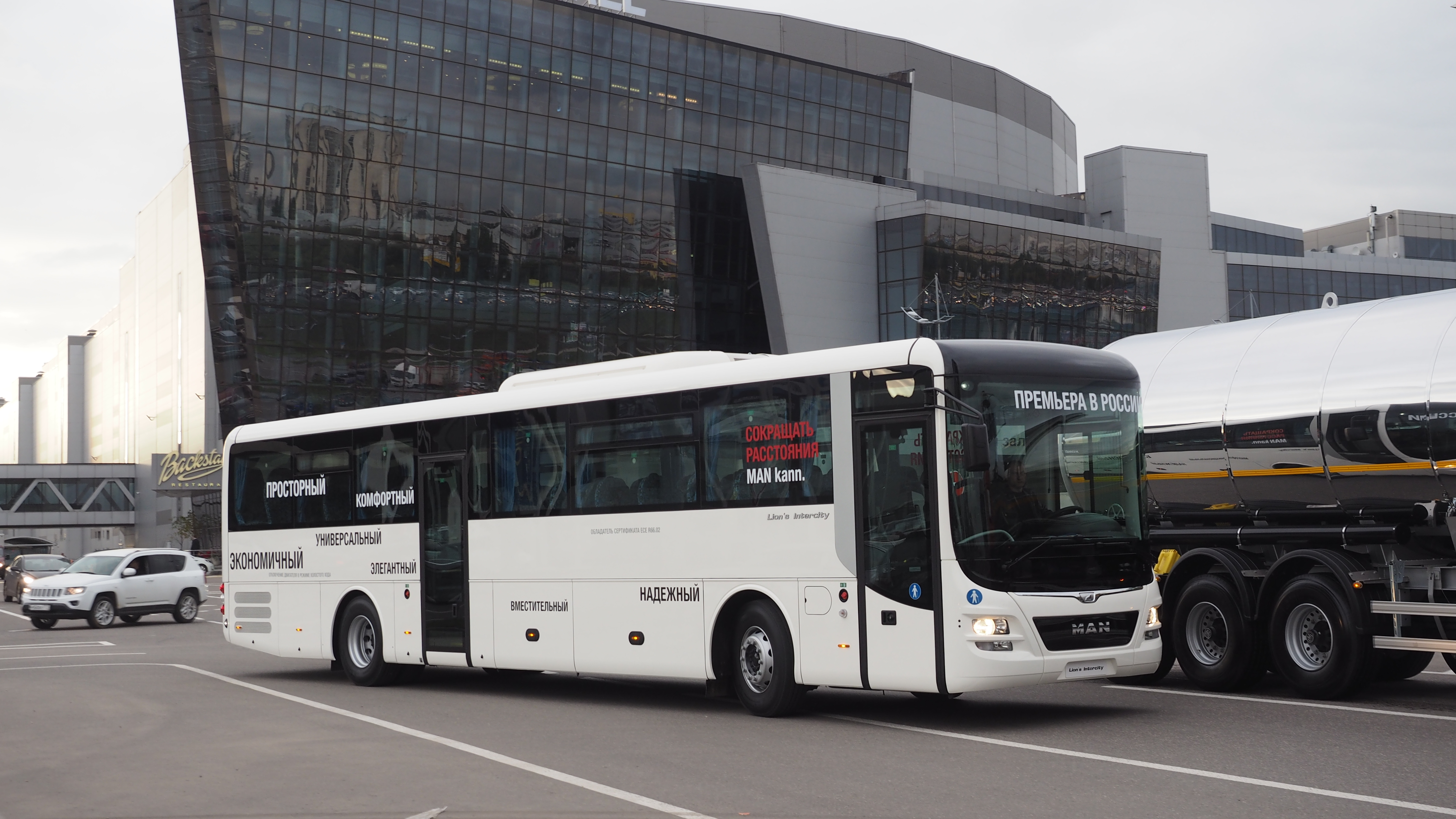 MAN Lion's Intercity at Comtrans 2015 exhibition in Moscow.